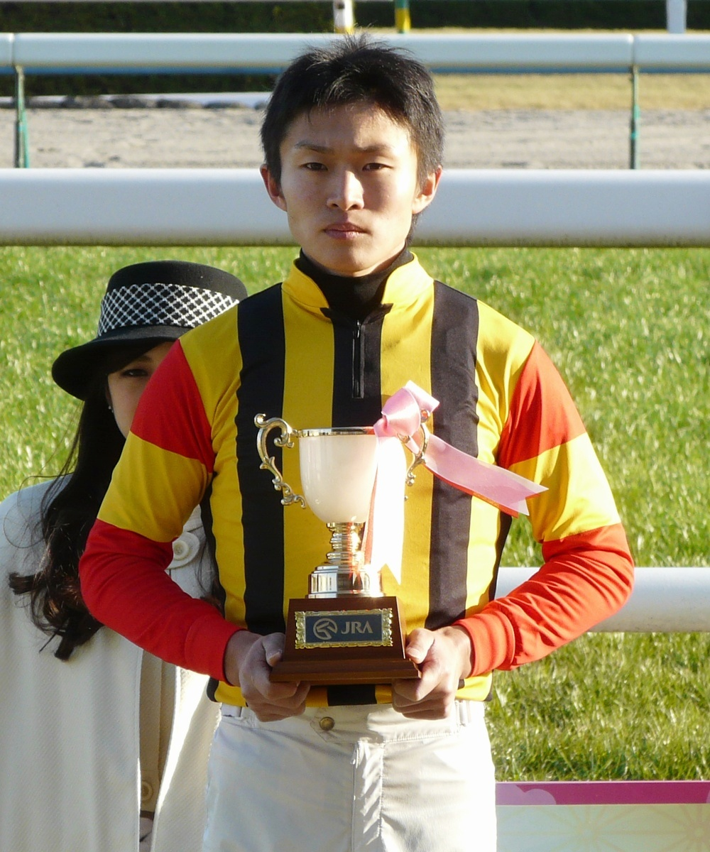 Takuma-Ogino20120105